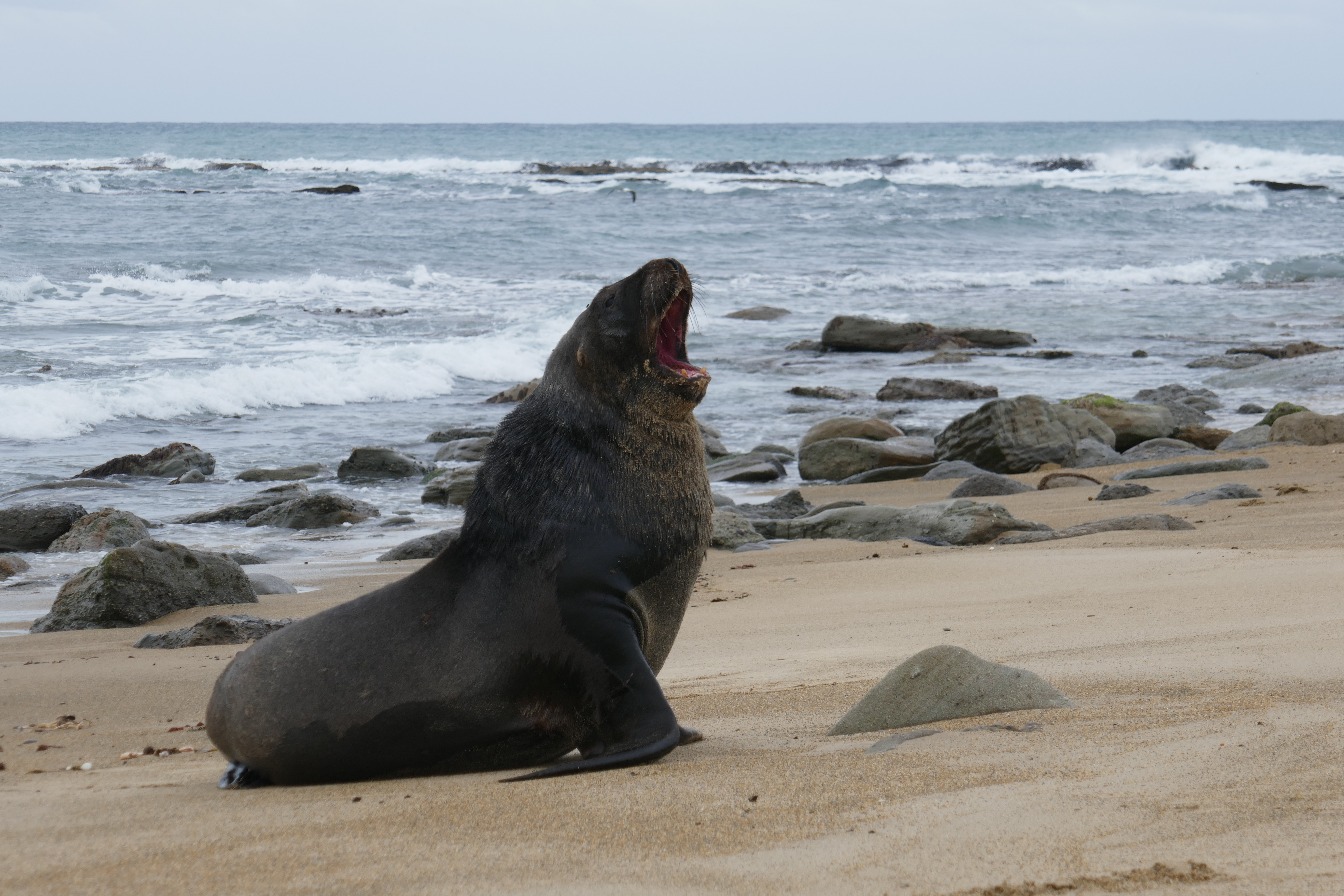 Picture taken at Waipapa Point